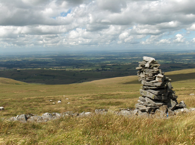 Cold Fell. This exposed northern outpost of the Pennines is well named. Below are the lowlands of Hadrian's Wall country.